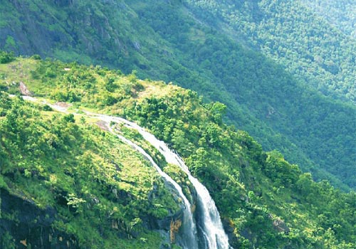 Chellarcovil Waterfalls